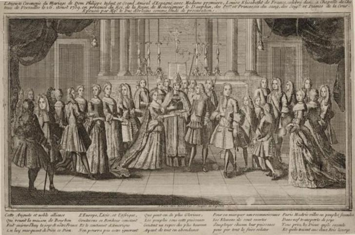 Drawing of the marriage of Don Felipe, Infante of Spain with Louise Élisabeth of France at Versailles on 26 August 1739 in the presence of the King, Queen, Dauphin of France and Princes of the Blood and the court